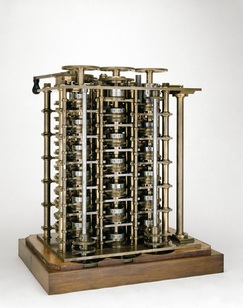 British computing pioneer Charles Babbage (1791-1871) first conceived the idea of an advanced calculating machine to calculate and print mathematical tables in 1812, as he wanted to eliminate all the sources of inaccuracy associated with compiling mathematical tables by hand. The engine was begun in 1824 and assembled in 1832 by Joseph Clement, a skilled toolmaker and draughtsman. It was a decimal digital machine - the value of a number represented by the positions of toothed wheels marked with decimal numbers.